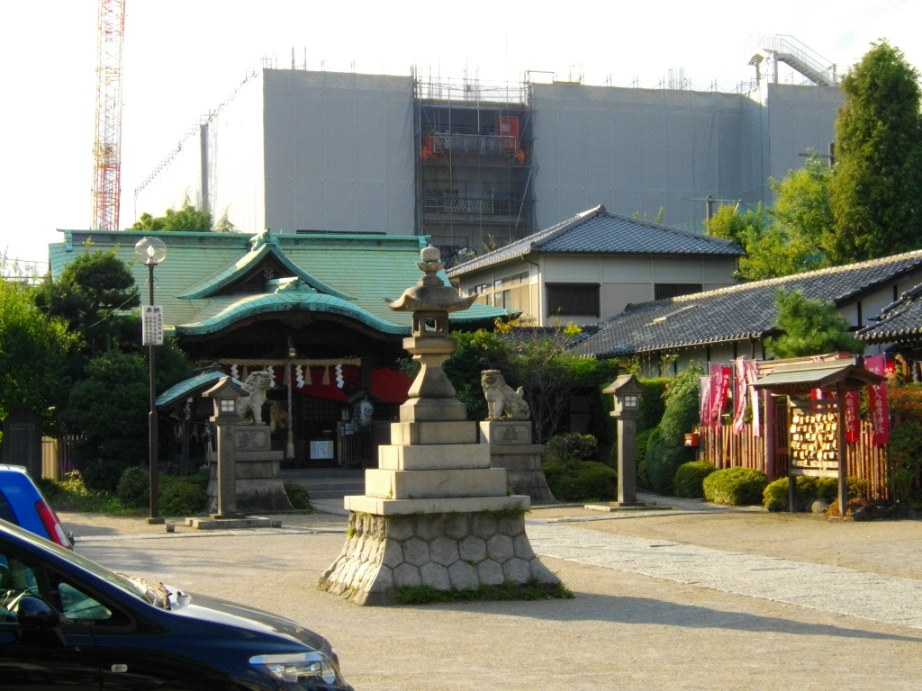 Tamahime Inari Shrine